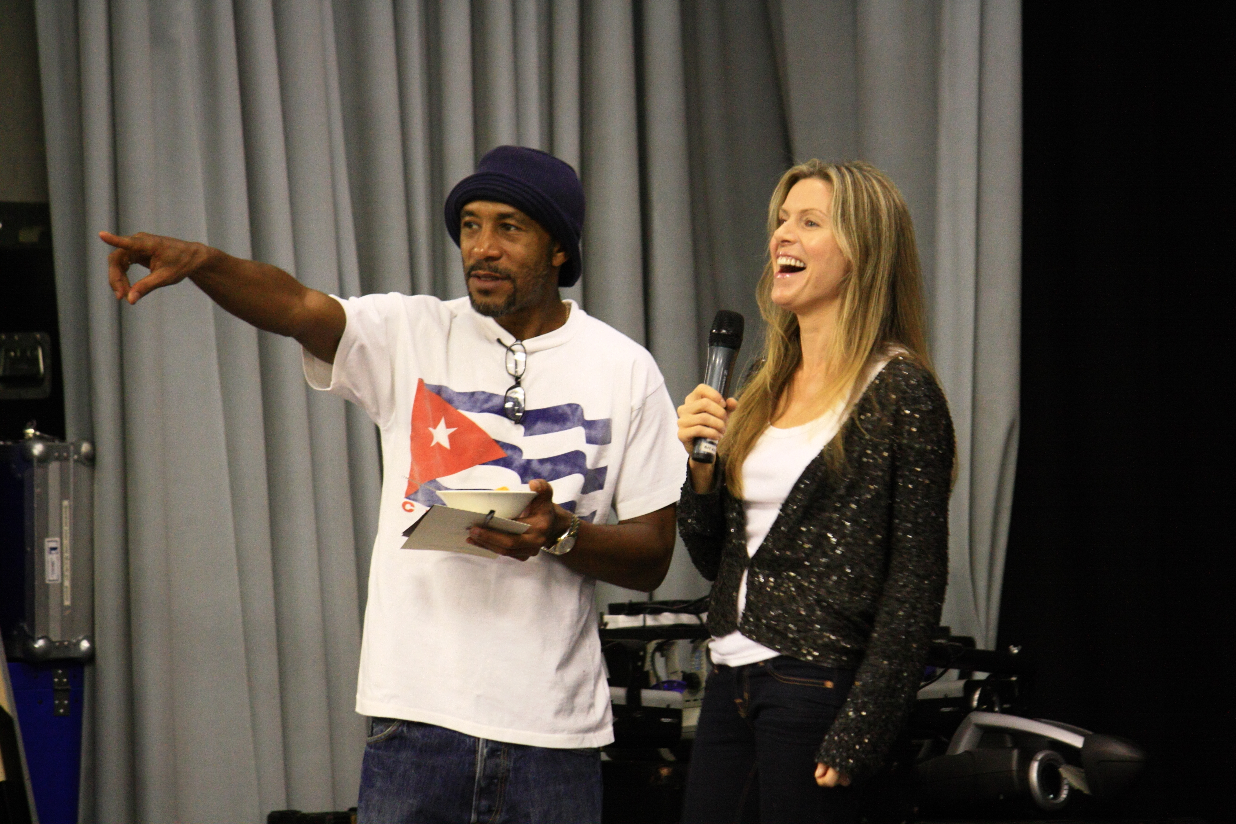 Danny John-Jules aka Cat and Chloë Annett aka Kristine Kochanski from Red Dwarf at Dimension Jump XV, Birmingham UK